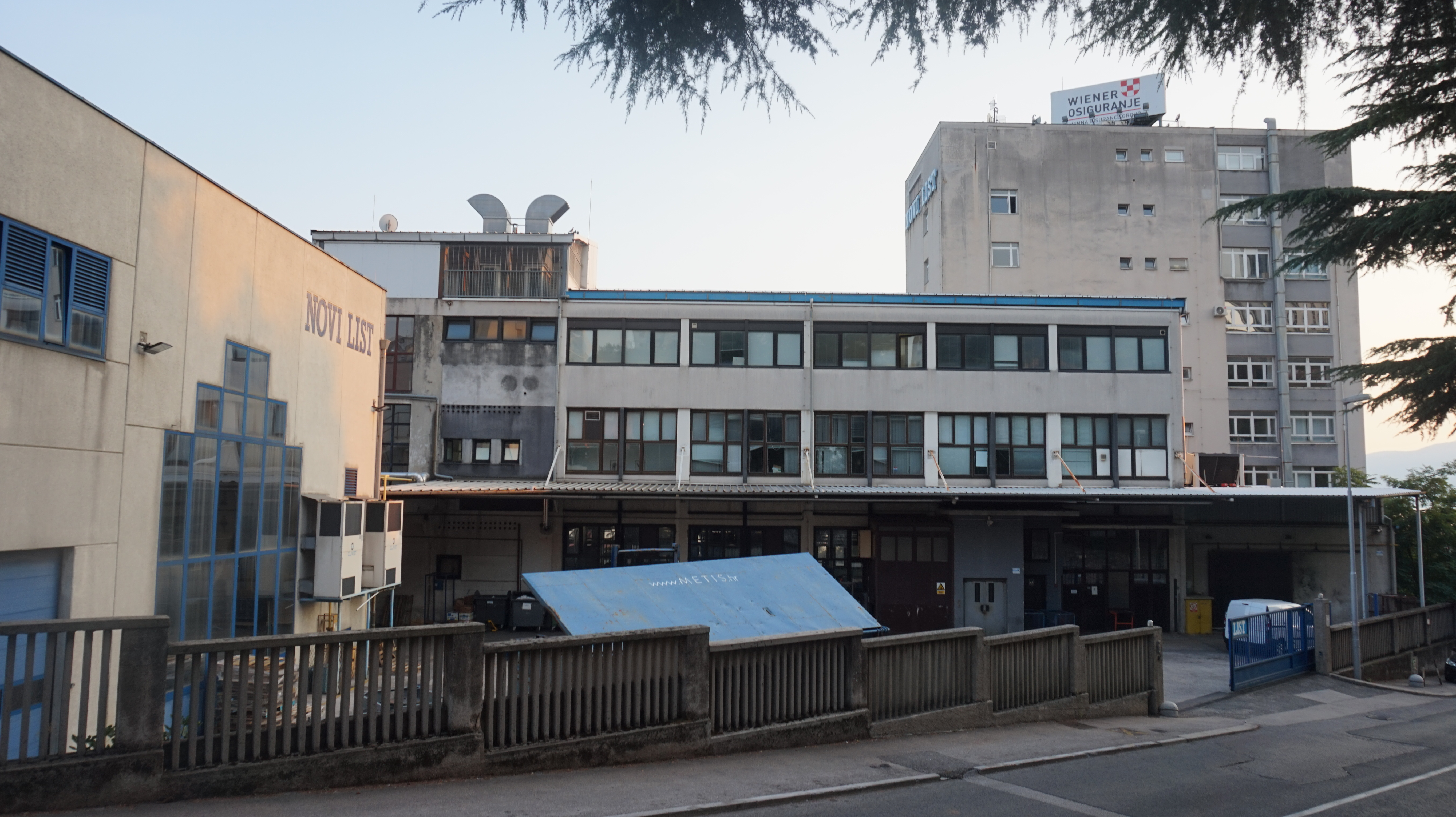 The building of the Novi list between Zvomimirova street and Rikard Benčić street in Rijeka